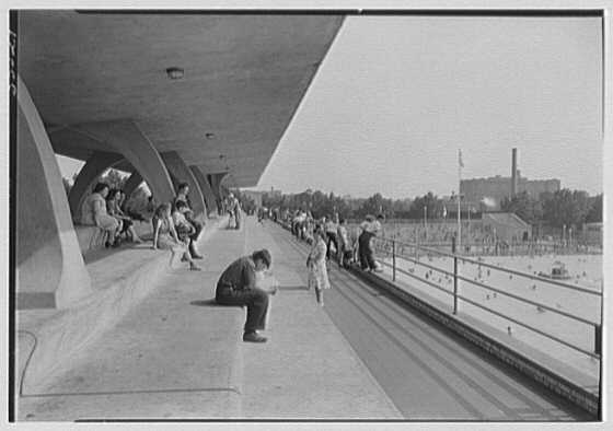 Title: Betsy Head Play Center, Hopkinson and Livonia Ave., Brooklyn, New York. Abstract/medium: Gottscho-Schleisner Collection (Library of Congress) Physical description: 1 negative